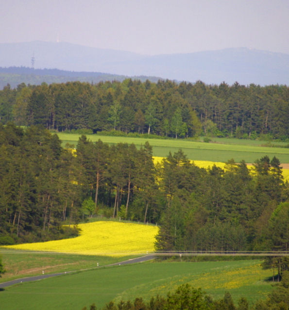 Fichtelgebirge seen from the distance (Upper Franconia)